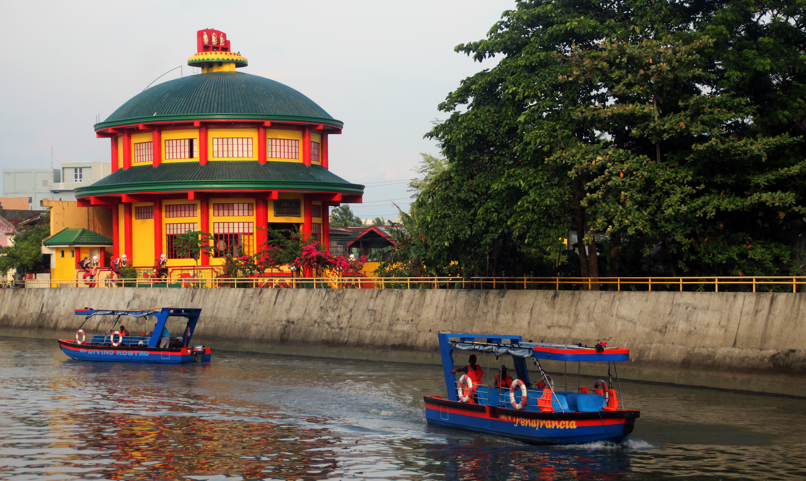 Taoist Temple along Naga River